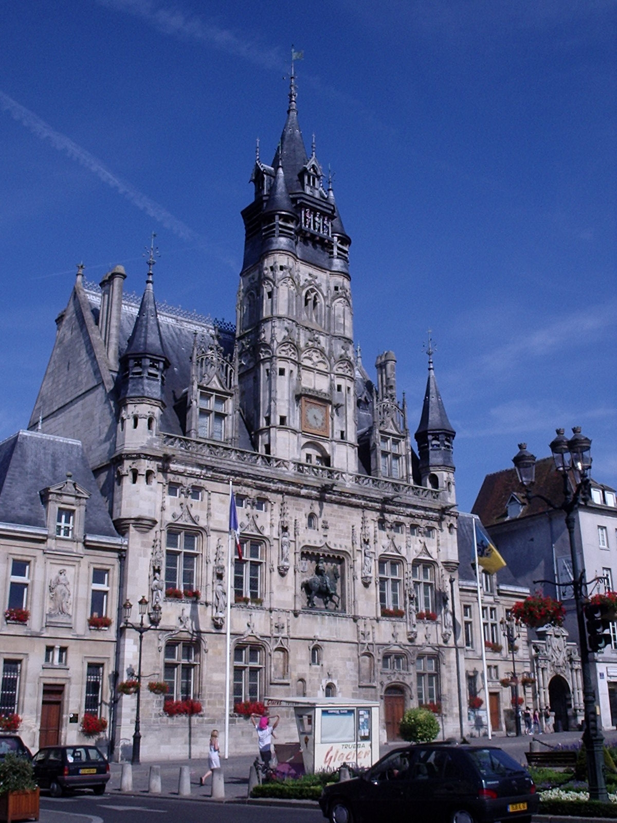 The stunning town hall of Compiègne, a town most famous for being the location of the signing of the armistices between France and Germany in both the first and second world wars.